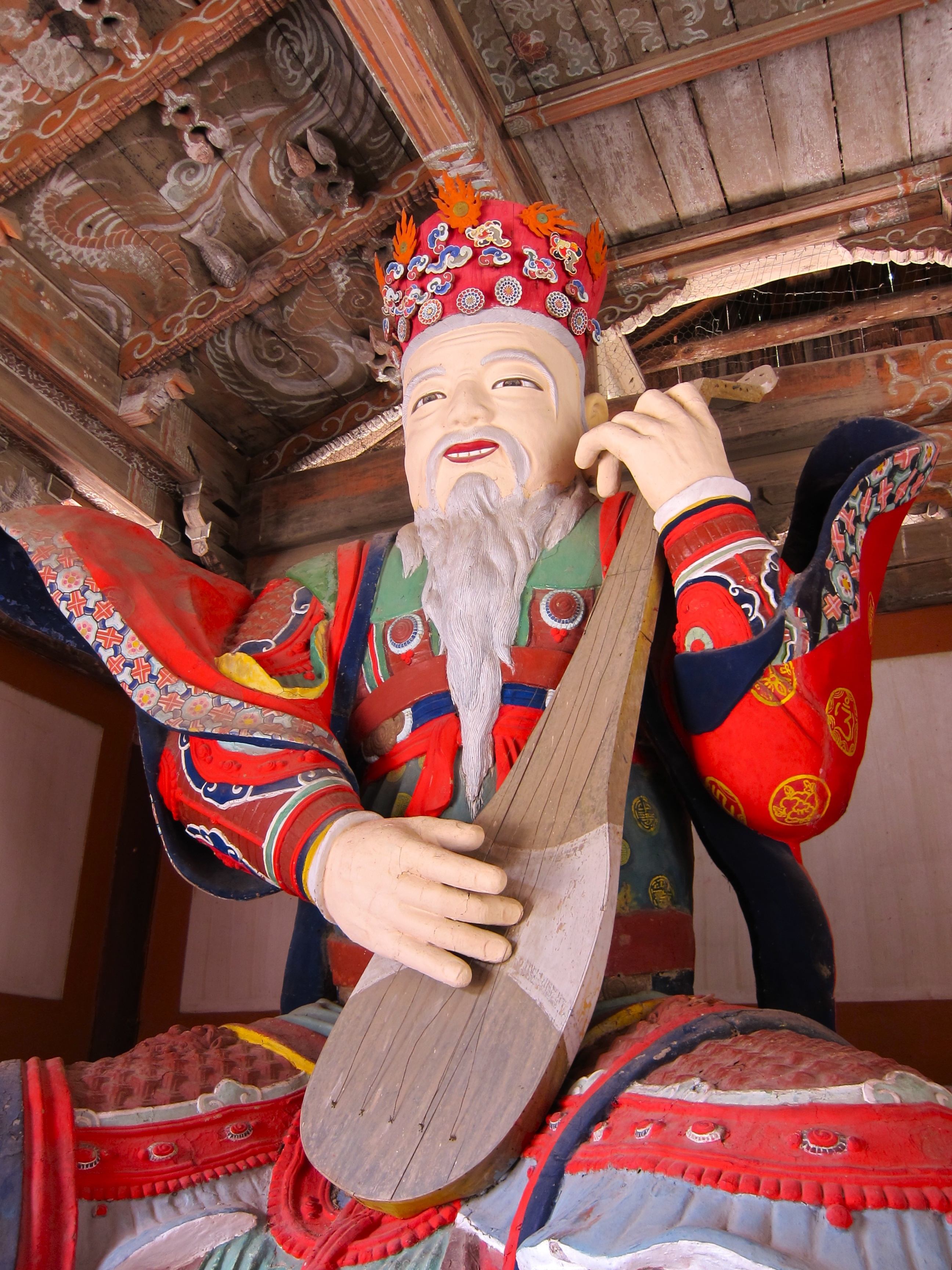 Pohyon Temple; Mt. Myohyang Region, DPRK (North Korea)